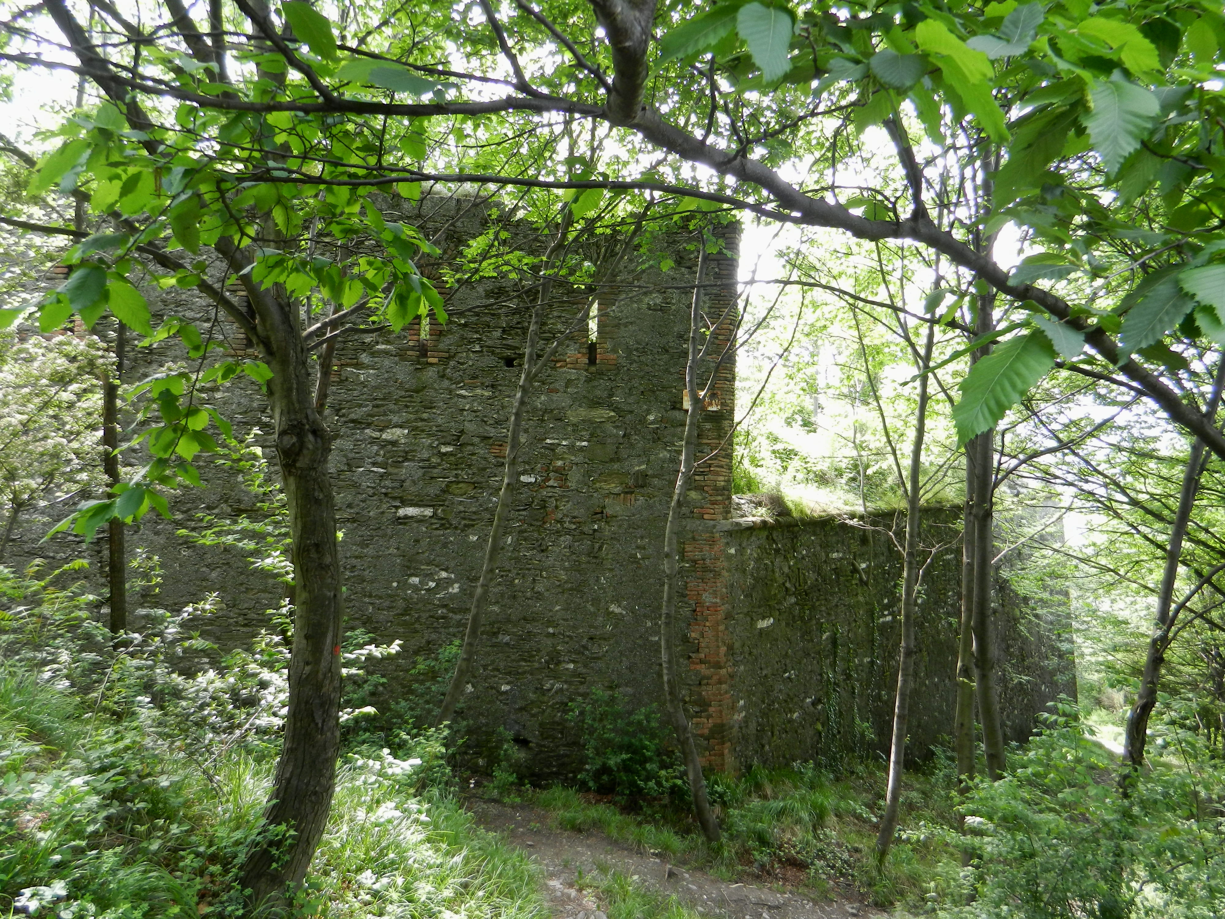 Fortresses of Genoa (Italy), tower Granara, along the walls between fort Tenaglia and fort Crocetta